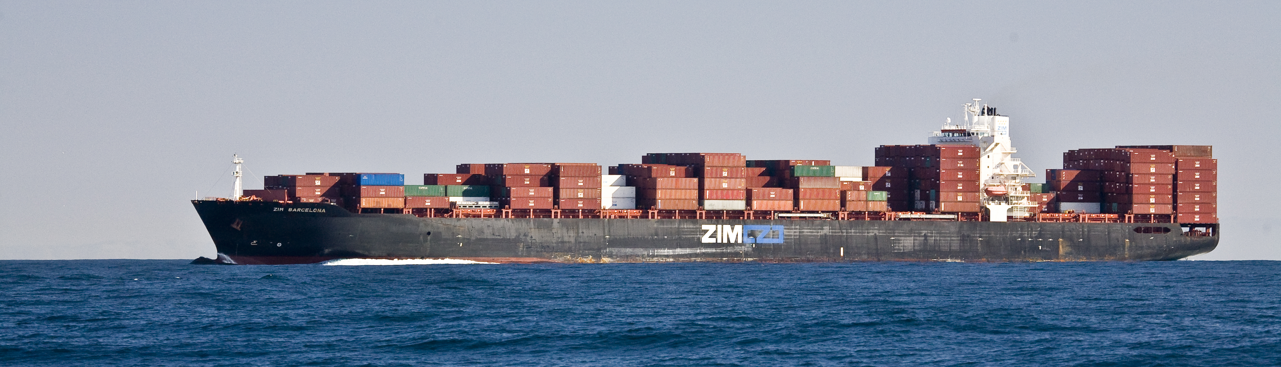 Freighter the ZIM Barcelona of Zim Integrated Shipping Services, Sat. 19 Jan 2008 out of Avila, Port San Luis, CA IMO Number: 9280835 MMSI Number: 428010000 Callsign: 4XIS Length: 294 m Beam: 32 m